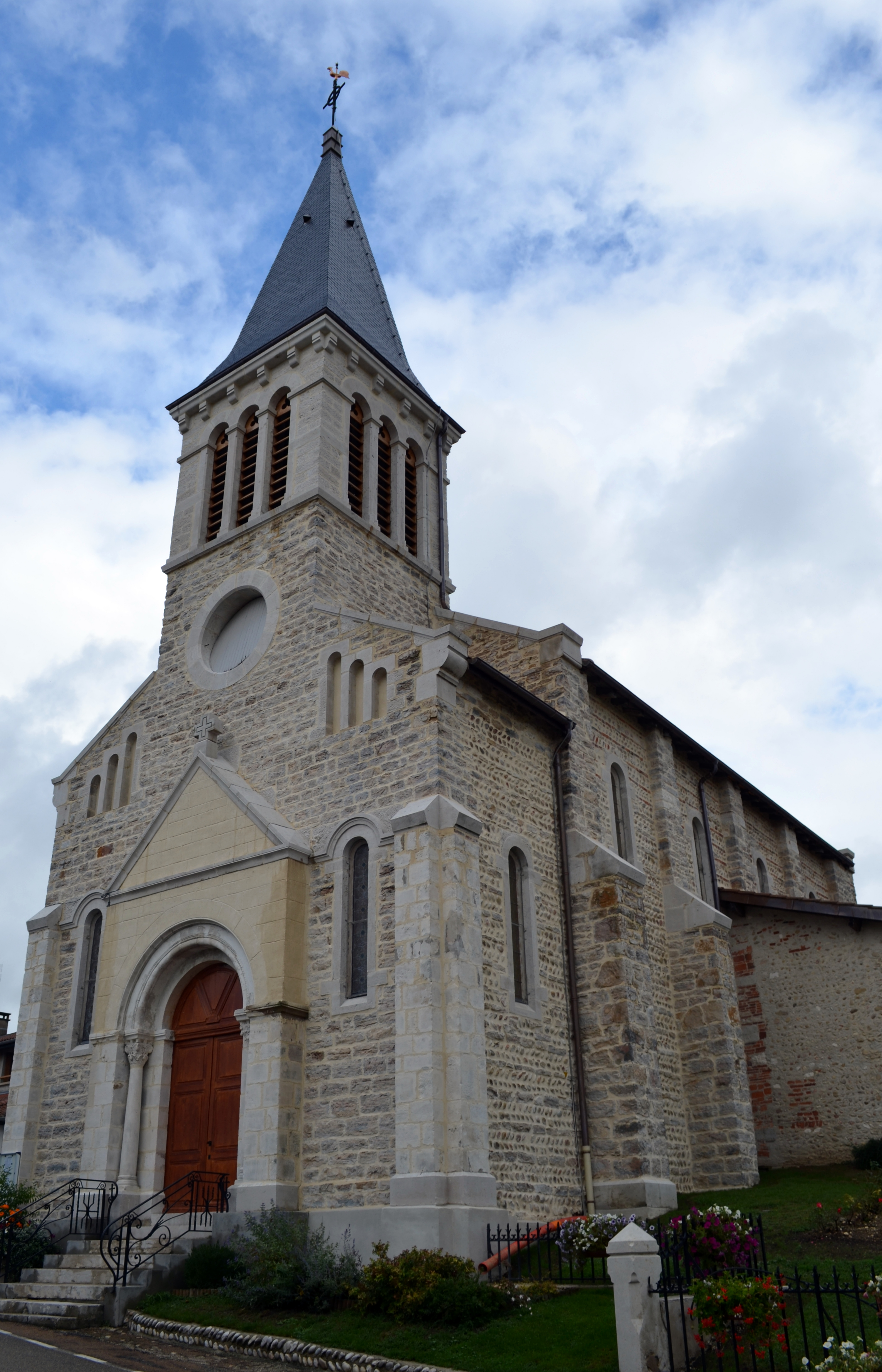 Church of Chatenay (Ain).